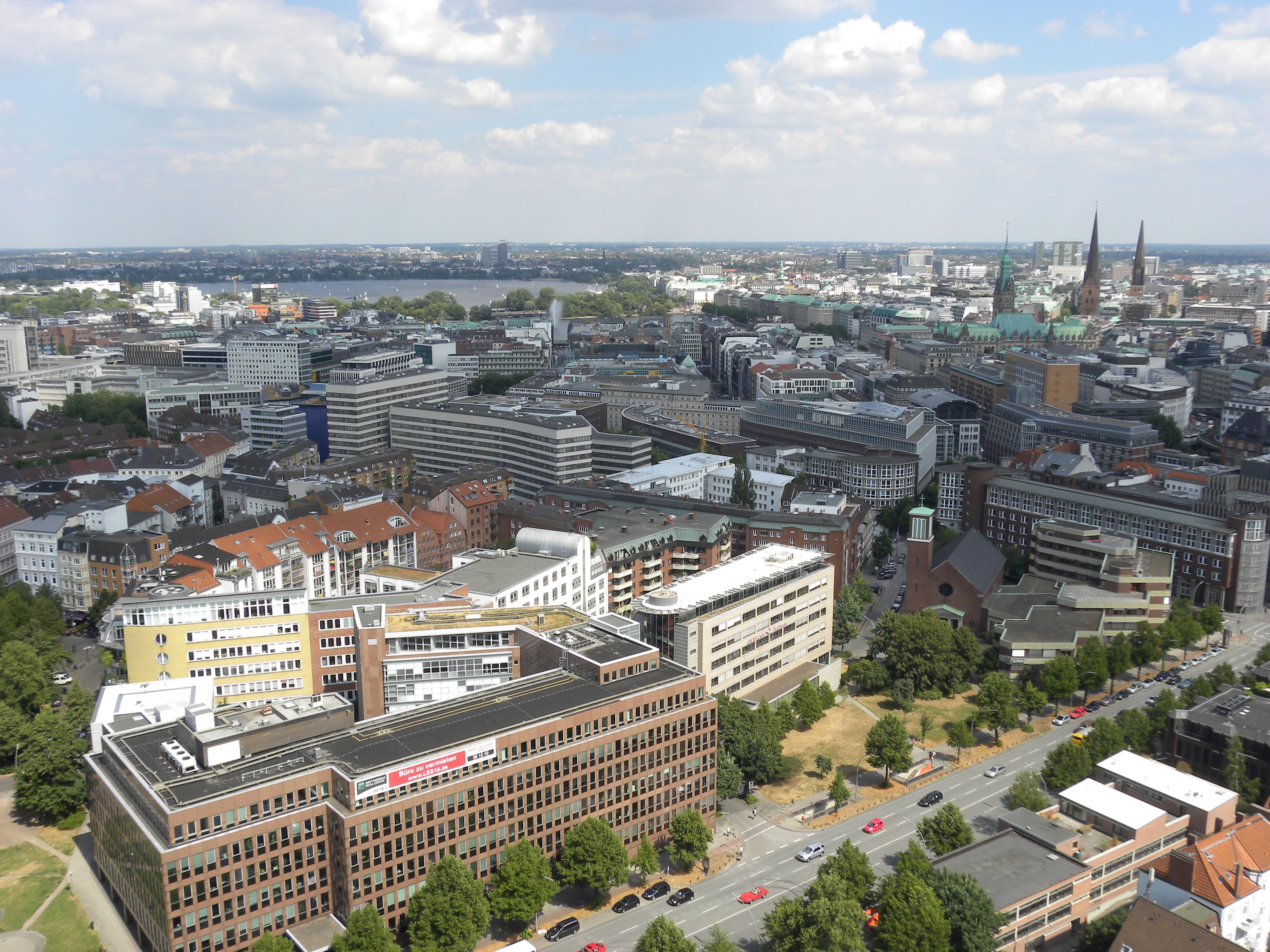 Hamburg city center viewed from St. Michaelis Church. Vorne die Neustadt mit der Ludwig-Erhardt-Straße.